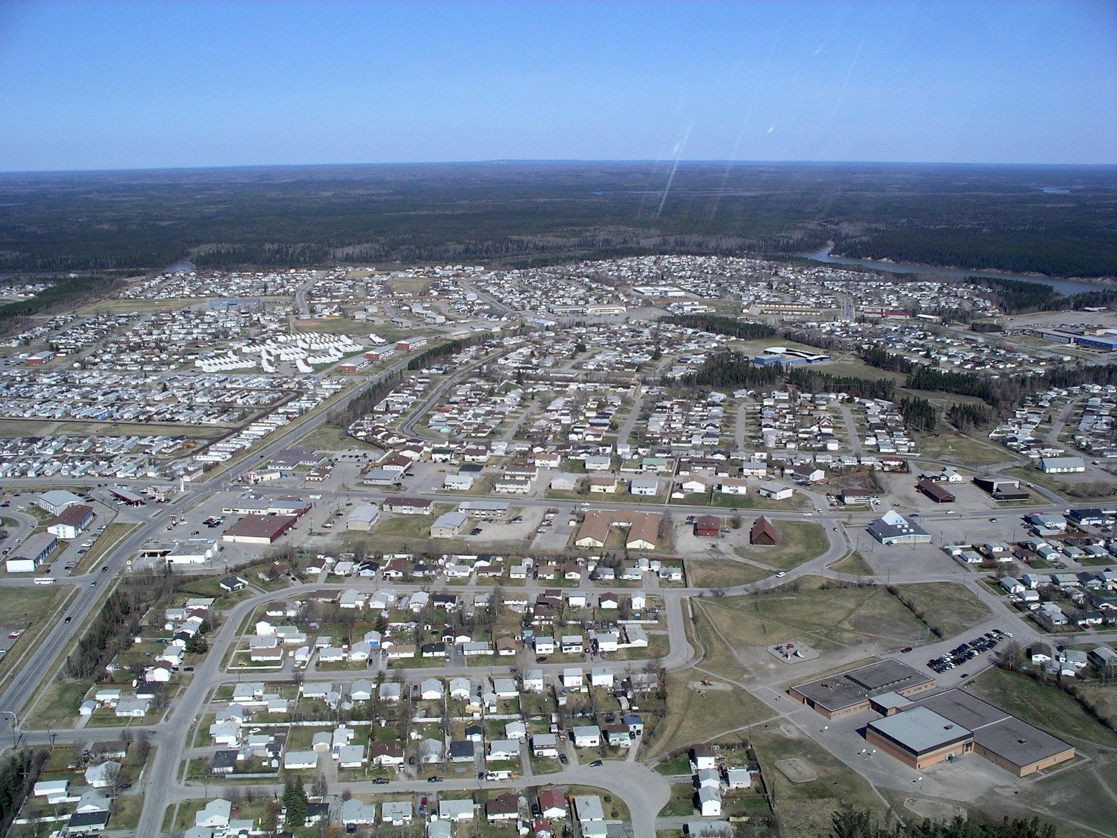 Looking North